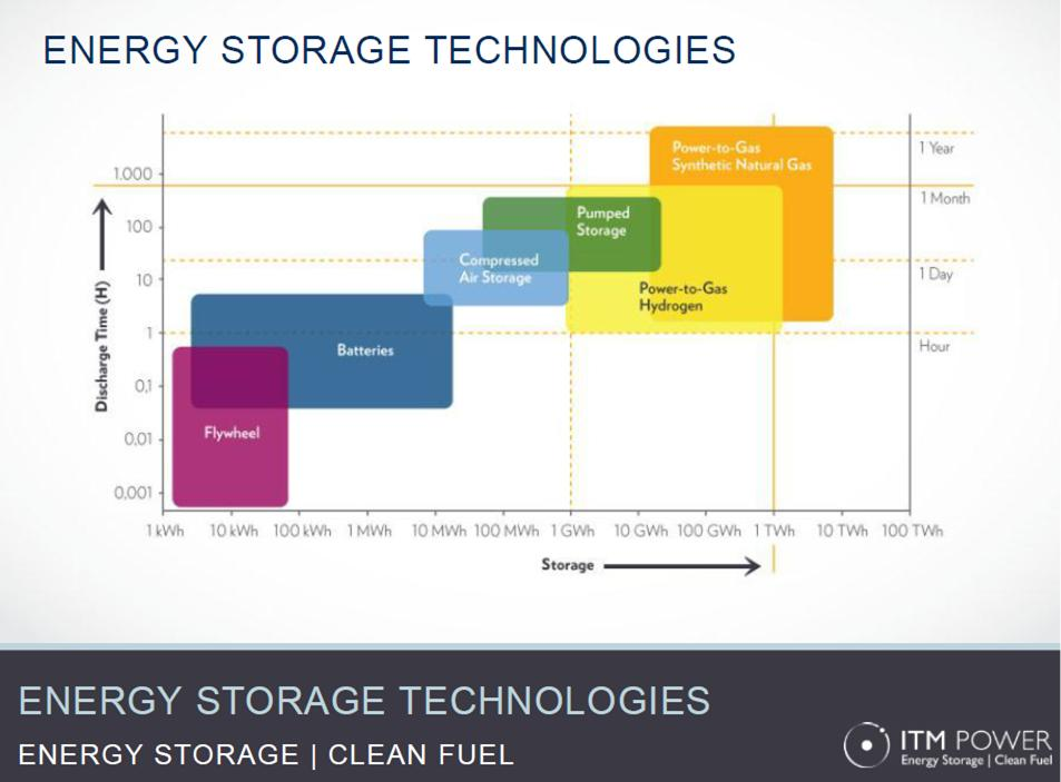 Power to Gas storage offers the longest and largest energy storage solution